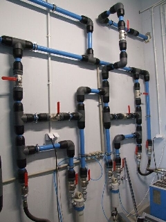 Compressed air installation